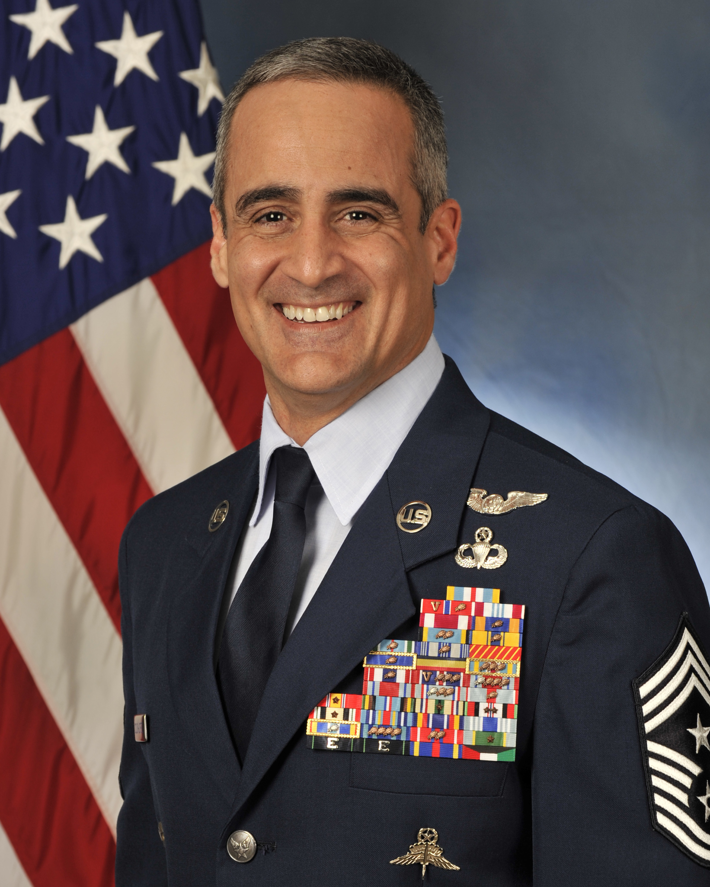 Chief Master Sergeant Ramon Colon Lopez's bio picture from when he was CCM of the 18th Wing at Kadena.